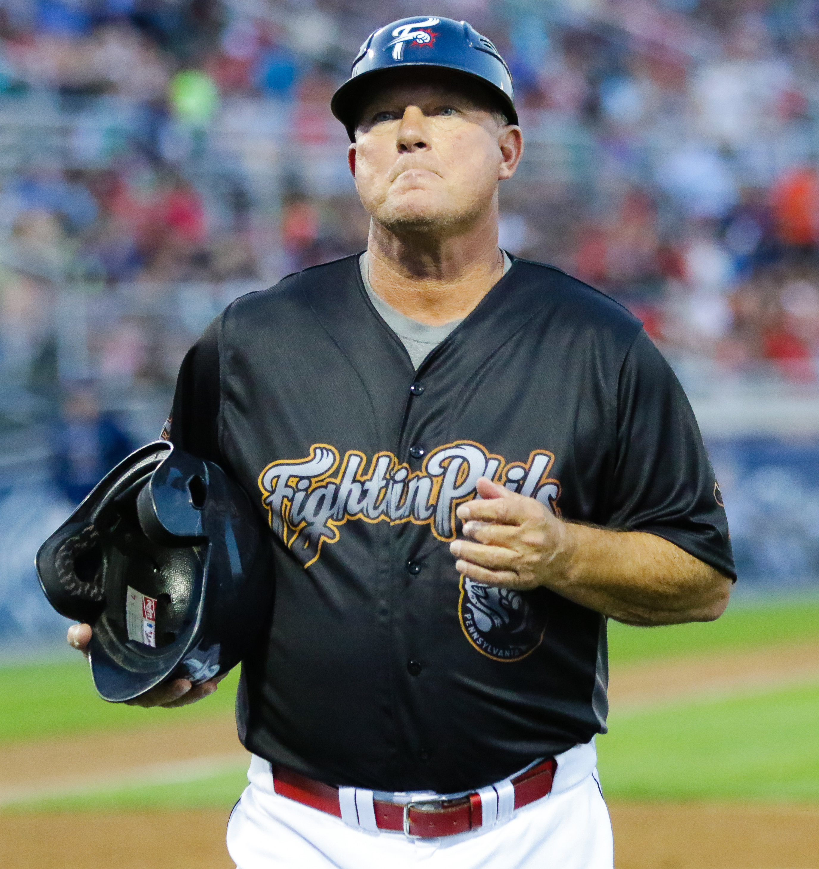 Greg Legg, manager of the Reading Fightin Phils, at FirstEnergy Stadium in Reading during a 2017 game